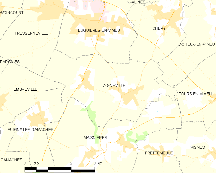 Map of French municipality Aigneville